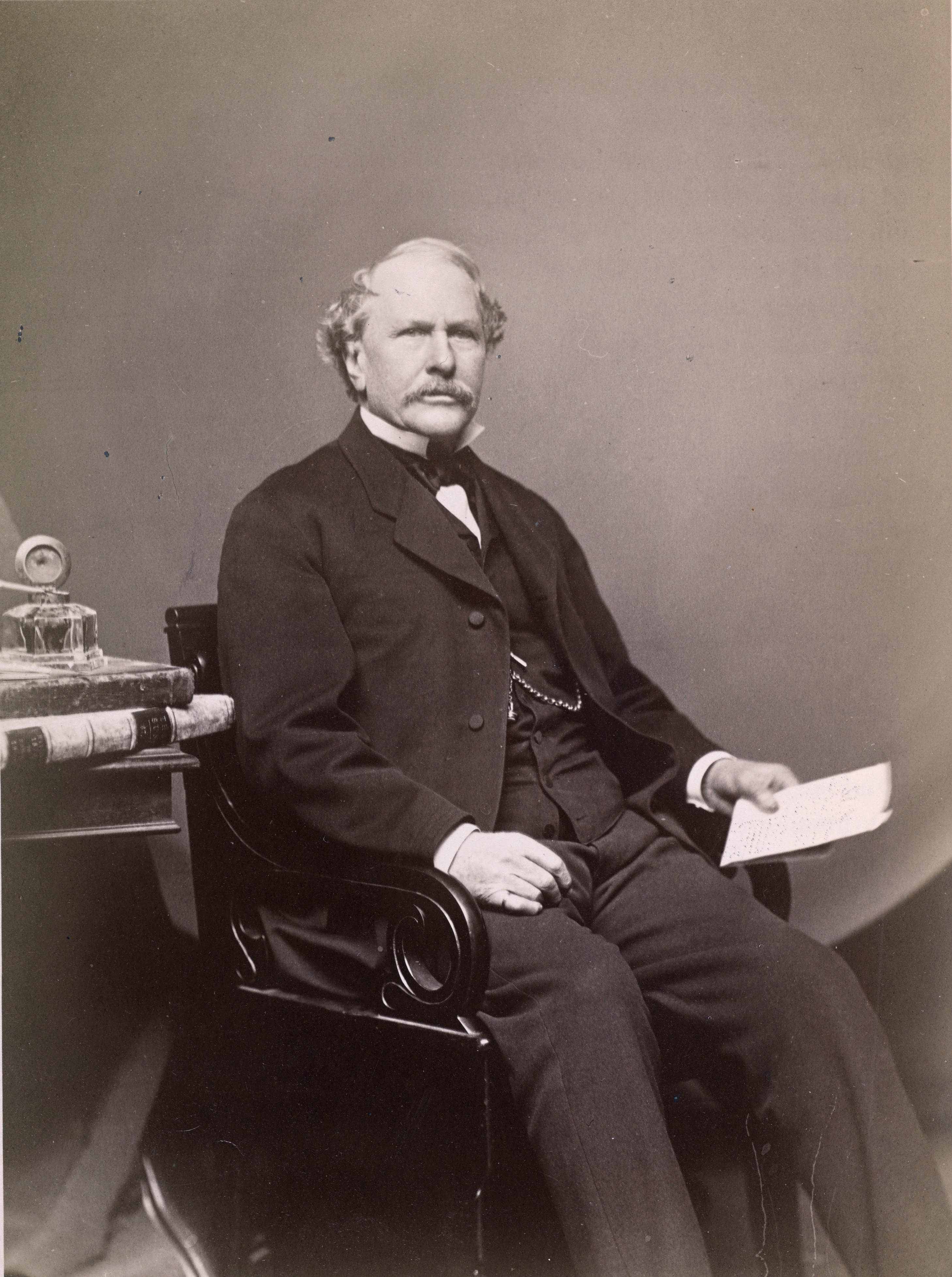 Albumen Silver Print of Arunah Shepherdson Abell. The J. Paul Getty Museum, Los Angeles.